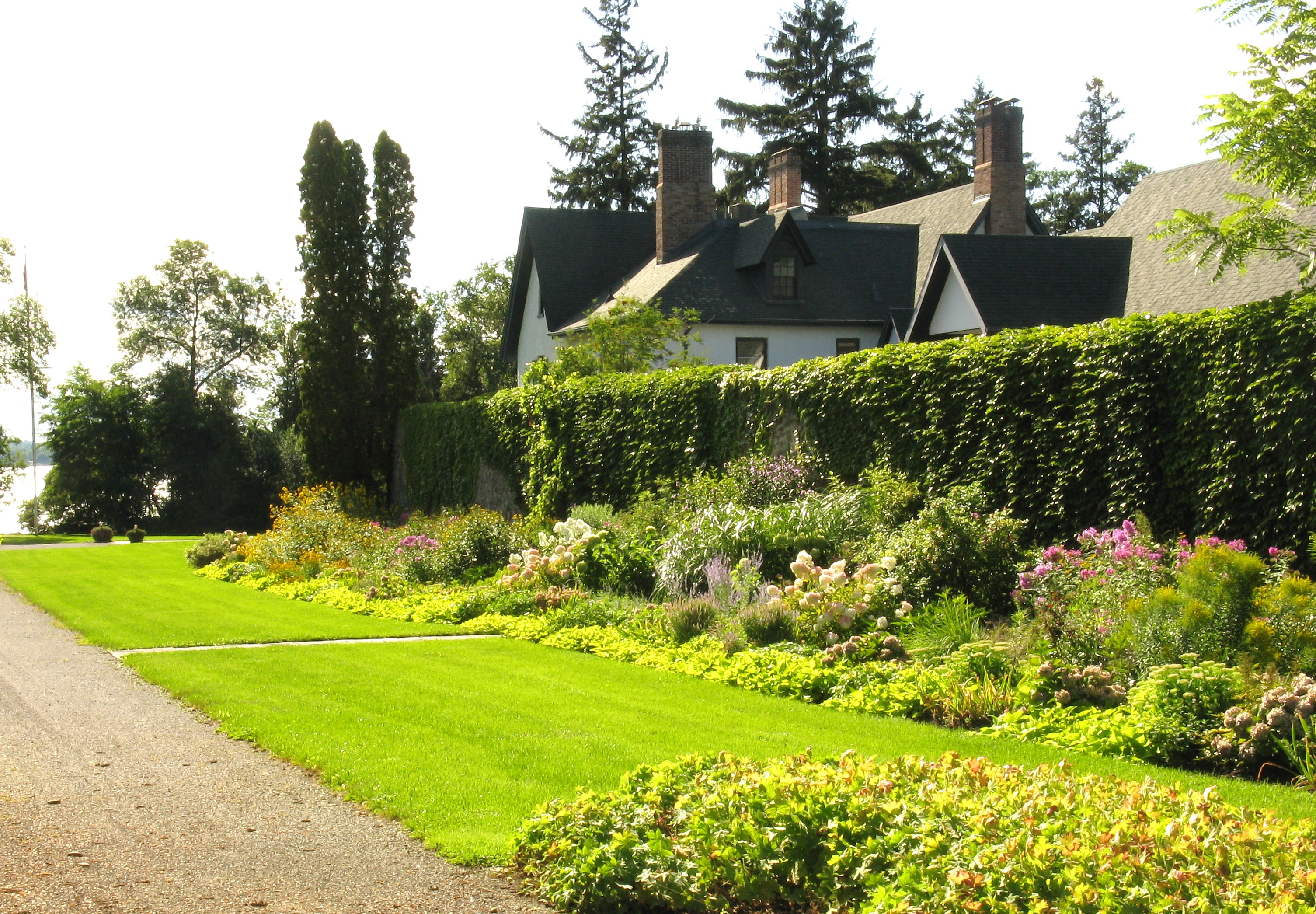 Beechcroft and Lakehurst Gardens National Historic Site, Roches Point, Ontario